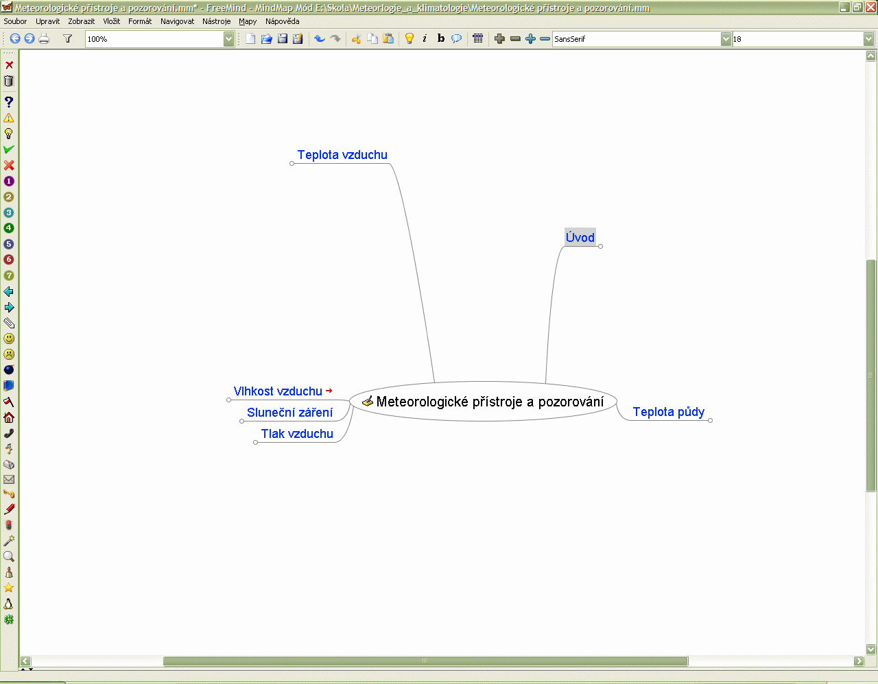 Screnshot of Freemind software